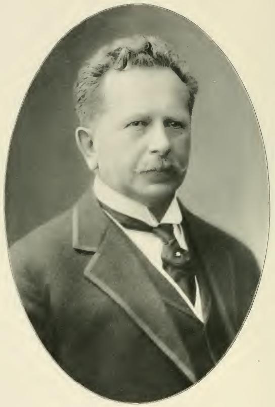 Charles Vopicka (1857 – 1935), the Ambassador of the United States of America in Bucharest, during the World War I